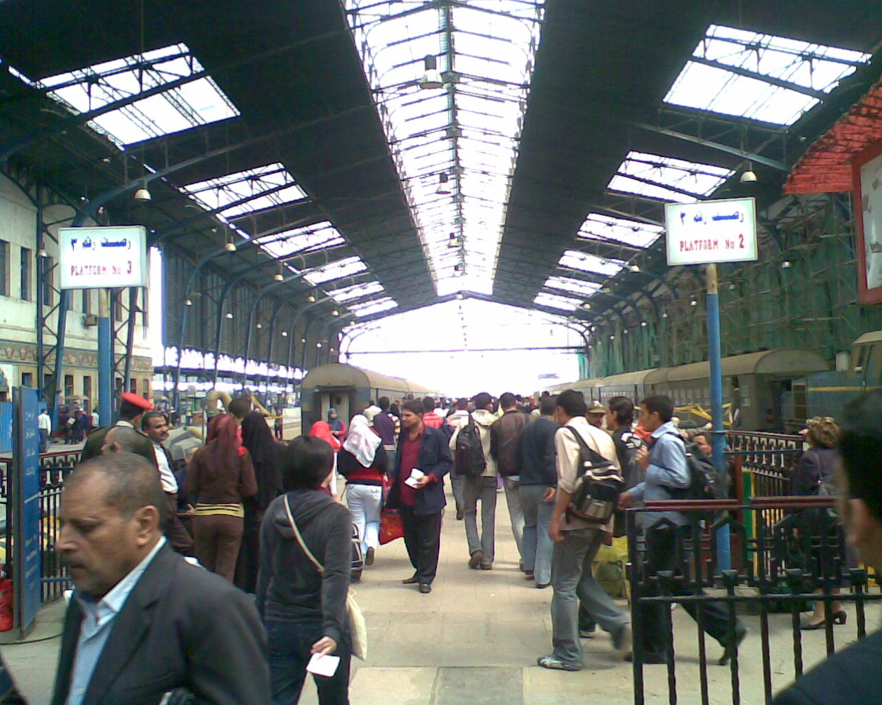 Ramses Station, Cairo, Egypt.